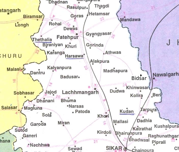 Sikar map